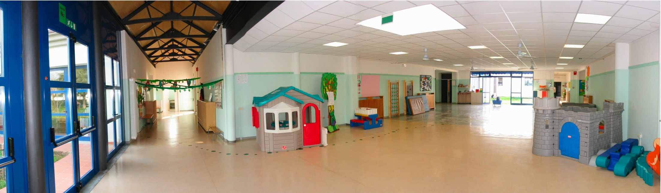 Kindergarten in Italy: Allende School in Collecchio (Parma)